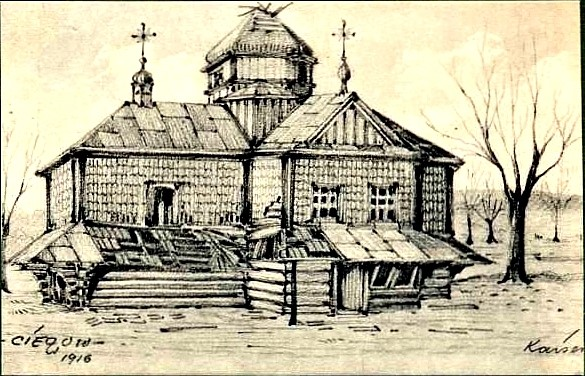 The one-dome wooden church, erected in 1854, is depicted with a destroyed elements. In the subsequent course of war, it was completely destroyed. In her place, a temporary chapel was built, and in 1938 a new wooden church was erected.